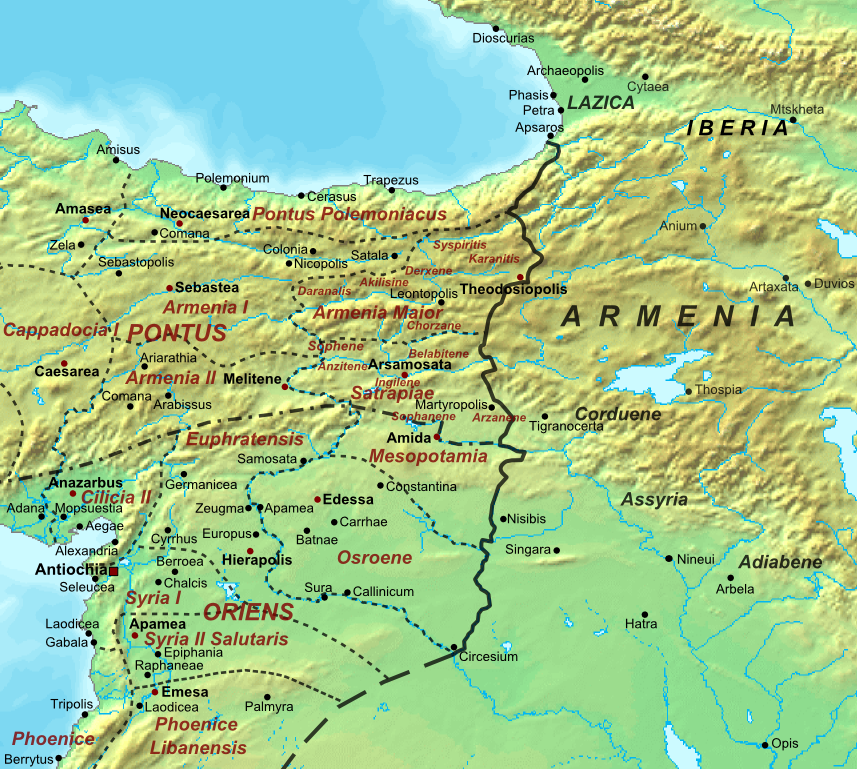 The frontier between the Roman and Sassanid Persian Empires after the treaty of 384 AD. Despite recurrent warfare, the frontier remained stable throughout the 5th century and until the reign of Justinian I.